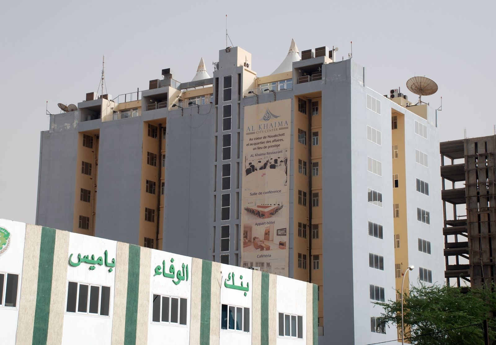 Nouakchott, Mauritania. Al Khaima Hotel